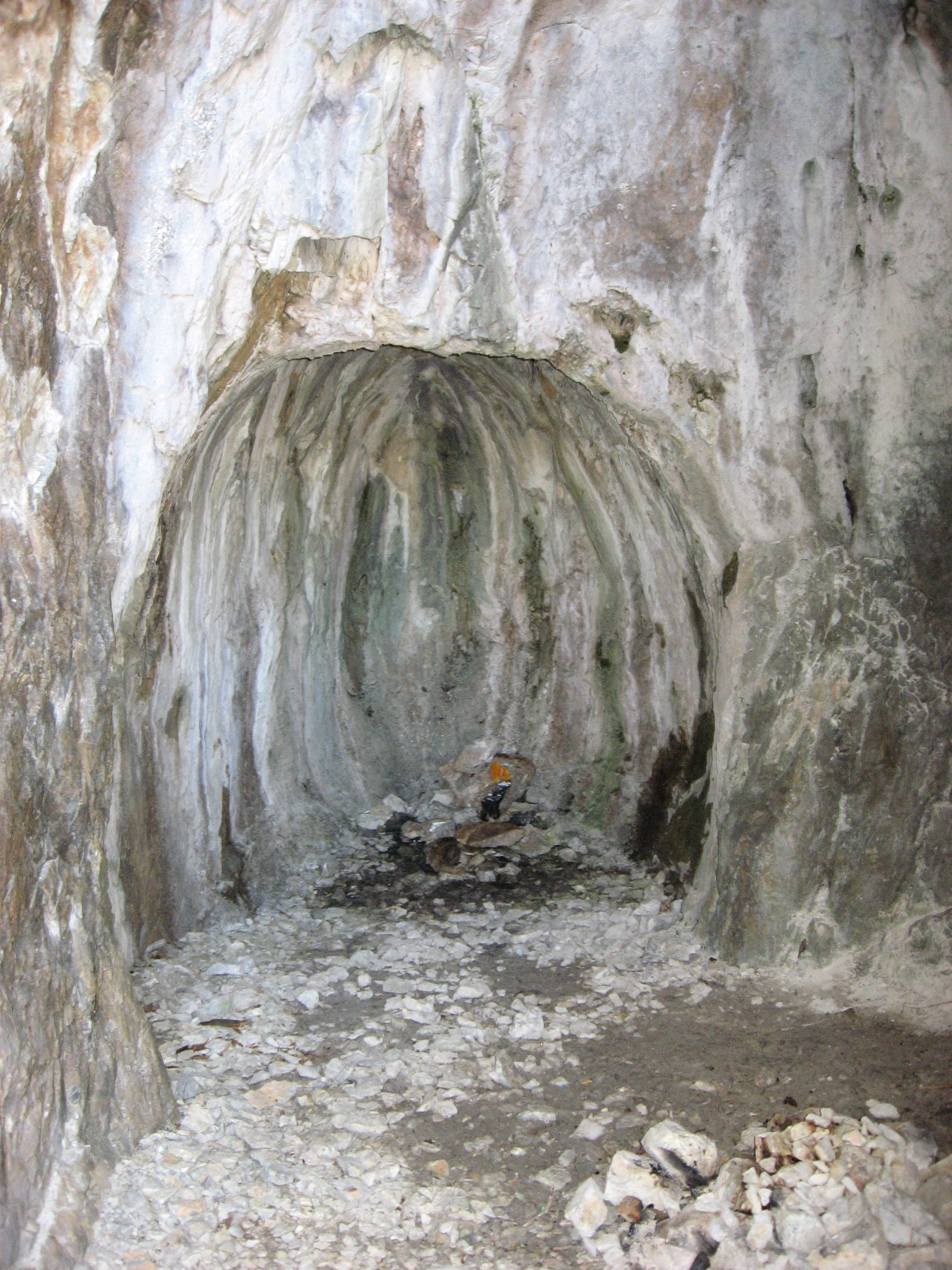 A characteristic, dome-like shape of a fire-set pit in dolomitic rock: traces of Bronze Age mining at Moosschrofen near Brixlegg (Tyrol, Austria)